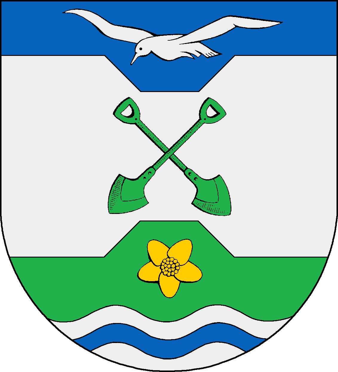 Coat of arms of the municipality Elisabeth-Sophien-Koog in Schleswig-Holstein, Germany.